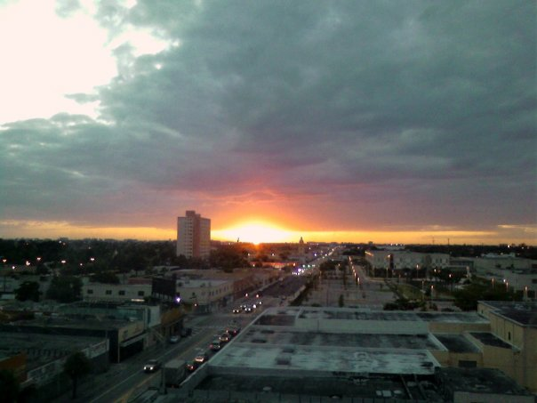 Westward view of the Allapattah along North 36th Street (US 27) in Miami, Florida United States